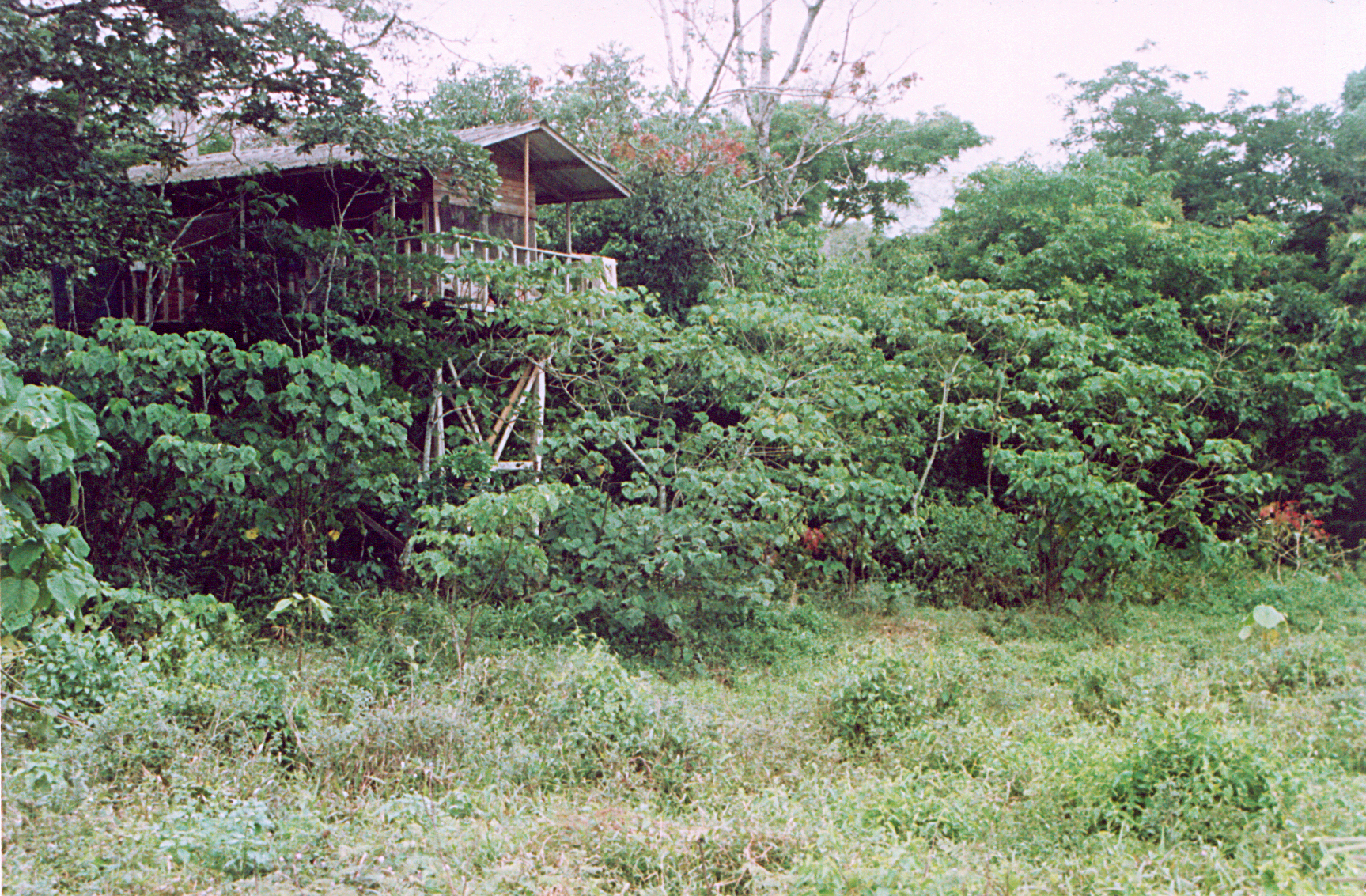 The first "mirdor" in Lobéké National Park, East Province, Cameroon. Guests may stay in the mirador overnight.